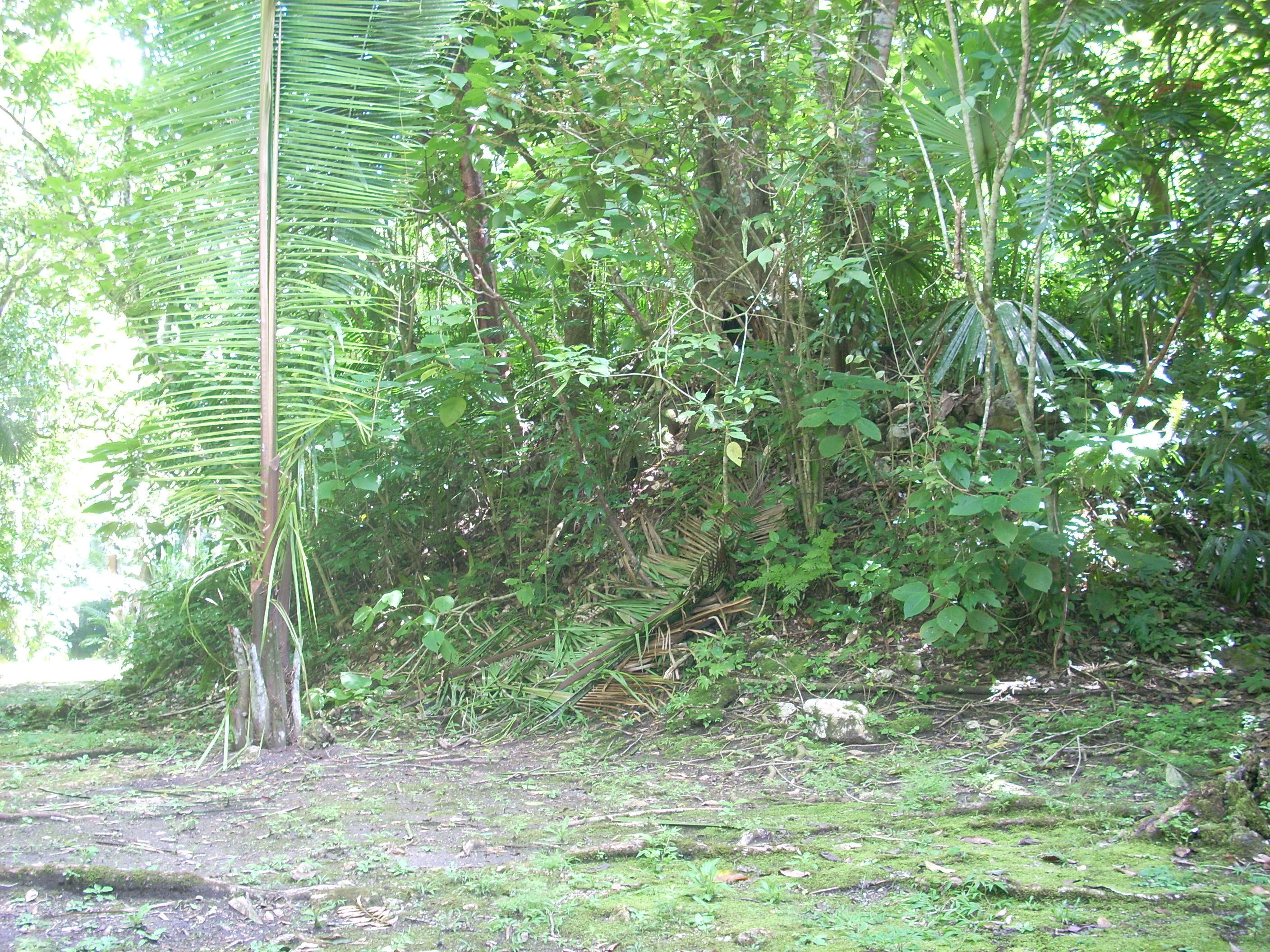 Structure in the Central Plaza of Ixkun, Peten Department, Guatemala.